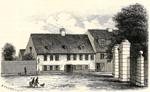 Jernporten at Frederiksberg Allé in Copenhagen, Denmark